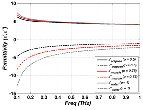 imaginary and real part of water dielectric